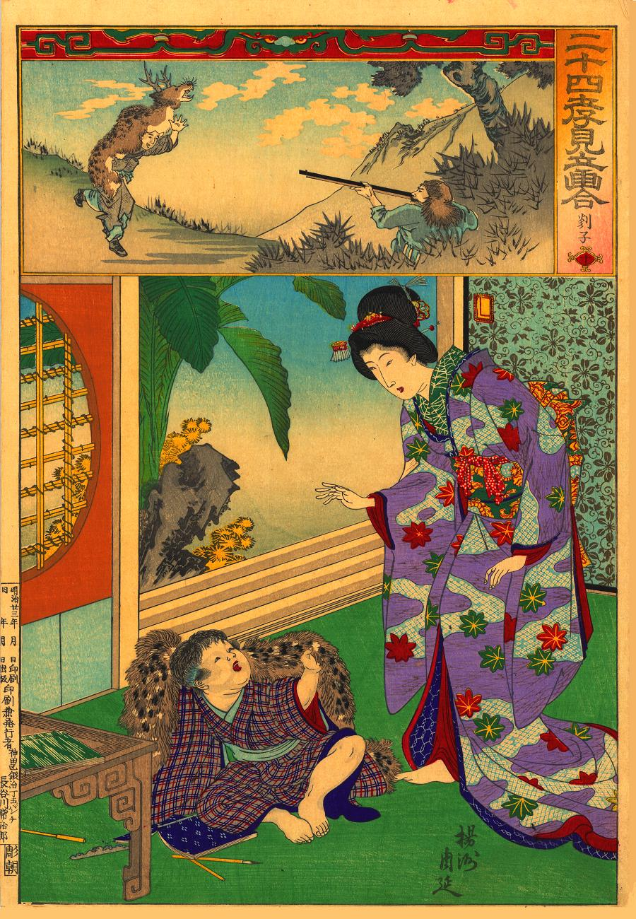 The Deer Milker # 10 from the series NIJŪSHI KŌ MITATE E AWASE